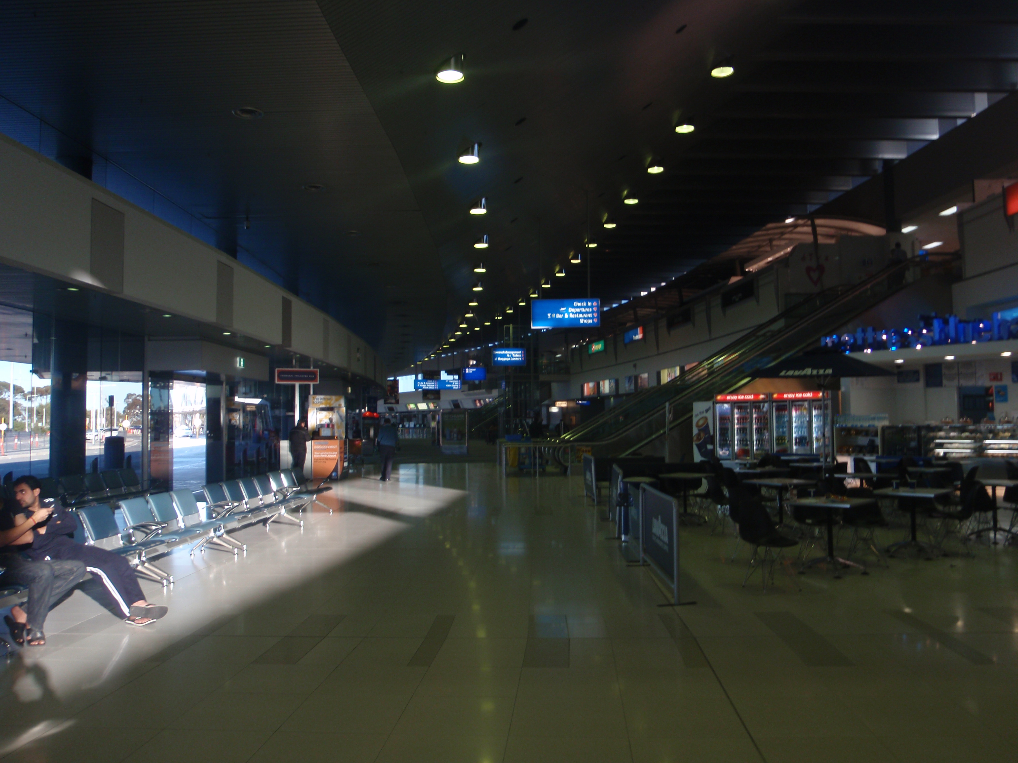 Arrivals area of Perth Airport Terminal 1 (International Terminal).